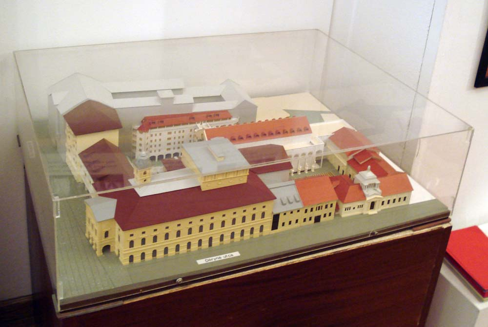 Maqette of Miskolc National Theatre, Theatre History and Actor Museum, Miskolc, Hungary